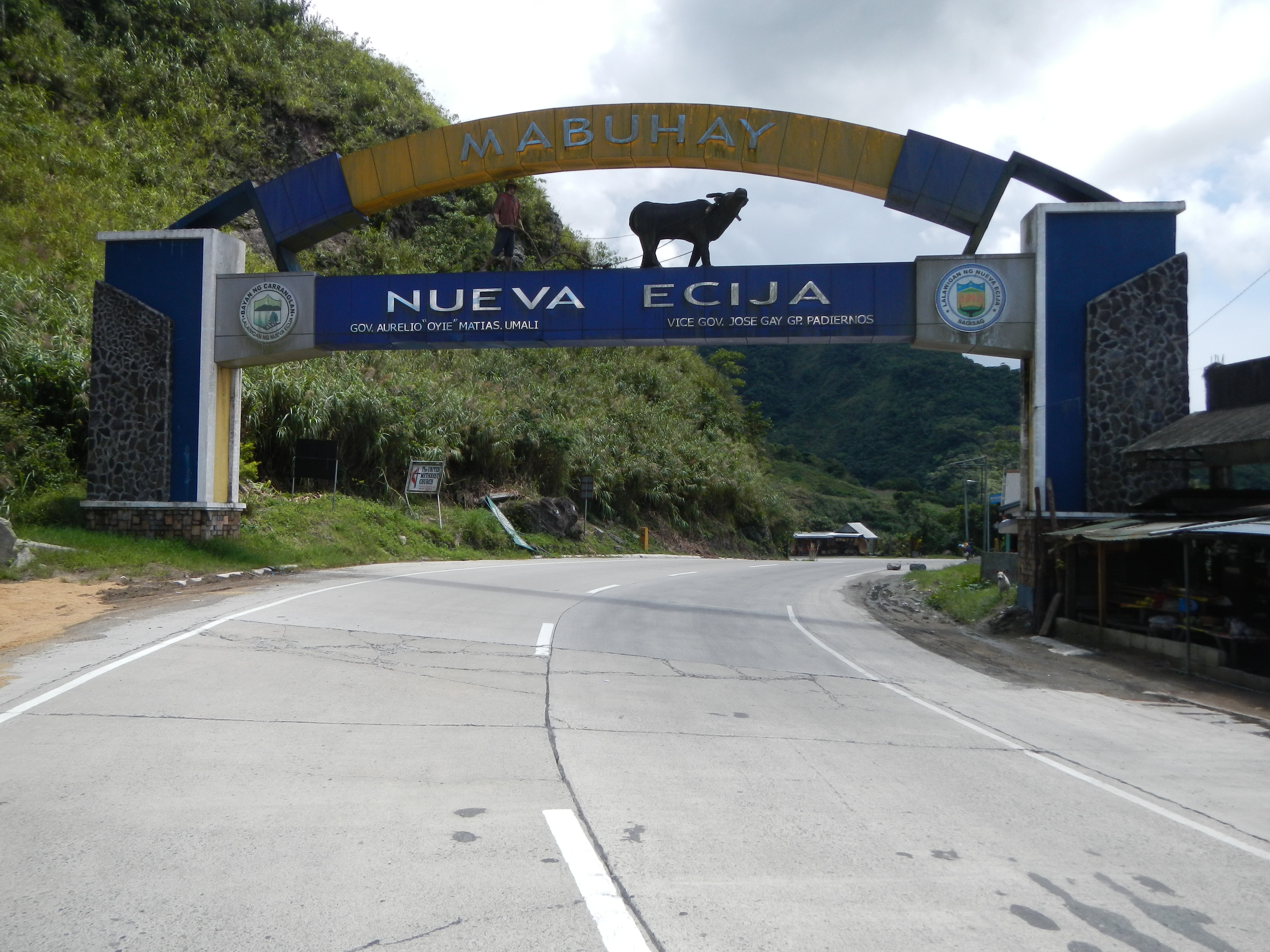 UploadWizard photos -- (General description, 3-dimension angle by angle photography of this town, church & landmarks) -- simply amazing scenery of greens, blue mountains, of Boundary Barangays of Capintalan, Carranglan, Nueva Ecija [1] [2] and Dalton formerly Balete, Santa Fe, Nueva Vizcaya [3] [4] located along Daang Maharlika or Cagayan Valley Road or Pan-Philippine Highway[5] the only passageway that links the entire North East Luzon to Metro Manila and Central Luzon. Cagayan Valley [6]), beside the Dalton Pass.